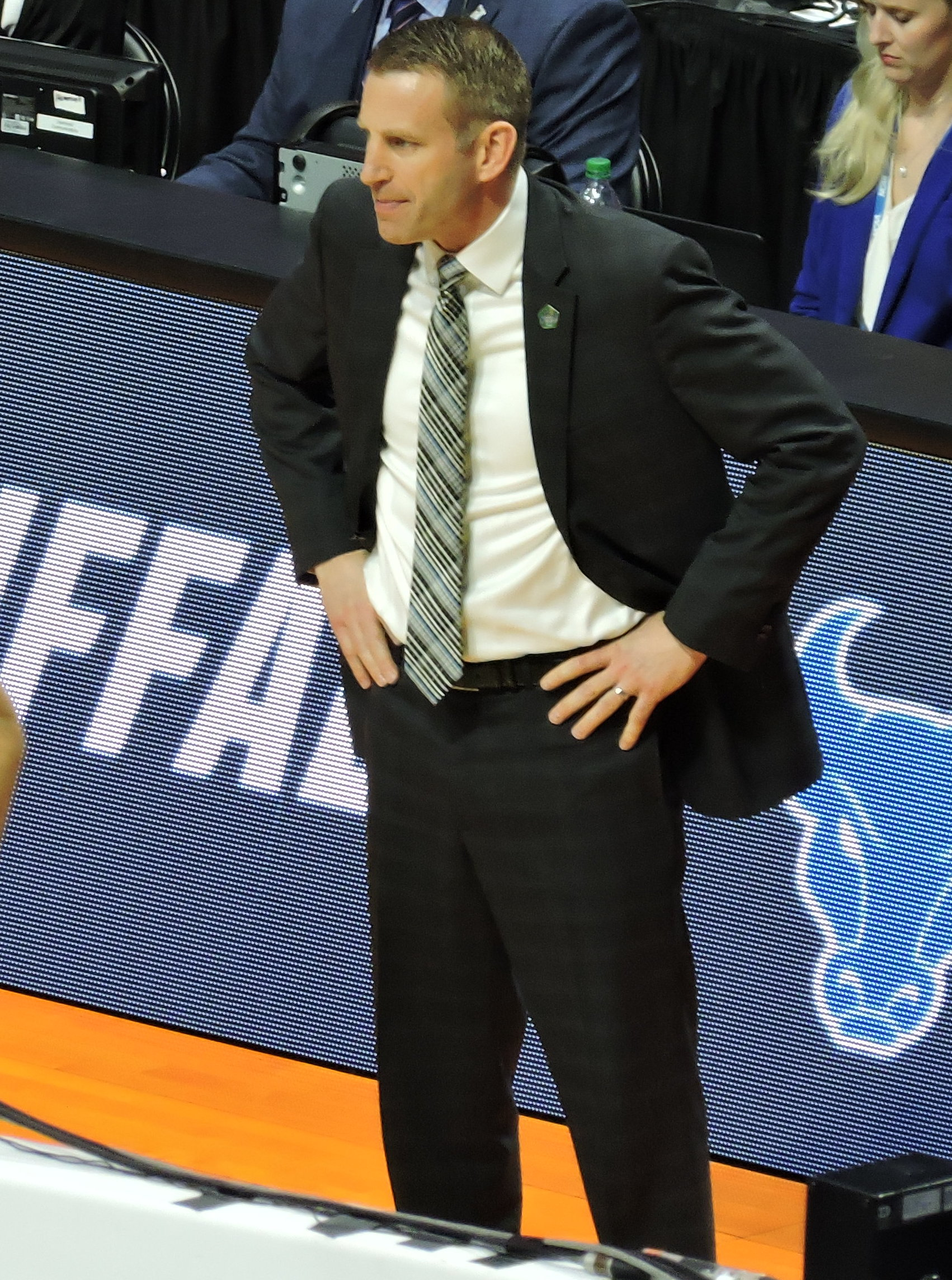 Buffalo Bulls Head Coach Nate Oates on the Sideline at the BOK Center in Tulsa, Oklahoma during the 2019 NCAA Basketball Tournament. After the Tournament, Coach Oats would leave Buffalo and be name the New Head Basketball Coach of the Alabama Crimson Tide.